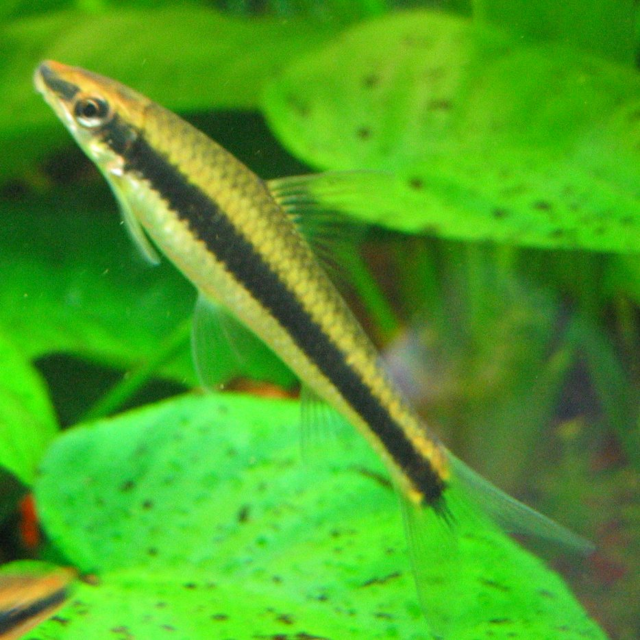 Close-up of a Siamese algae eater (sex unknown). Length circa 6 cm. Remark It is certainly not Crossocheilus siamensis but an undescribed Crossocheilus species treated as Crossocheilus langei Alfred 1971, which has two pairs of barbels and a dark anal blotch as Crossocheilus langei has, but is larger. The second pair of barbels, the maxillary one, is hardly visible without magnifying device. No rudiments of maxillary barbels existed in the holotype of Crossocheilus siamensis, and no ones exist in Crossocheilus oblongus.